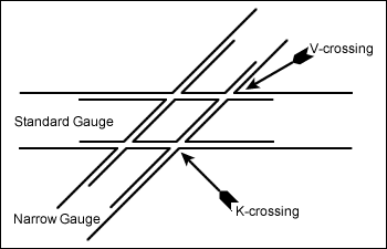 Railroad diamond crossing. Somewhat prettified version of original artwork by Tabletop. Original artwork by DanMS.